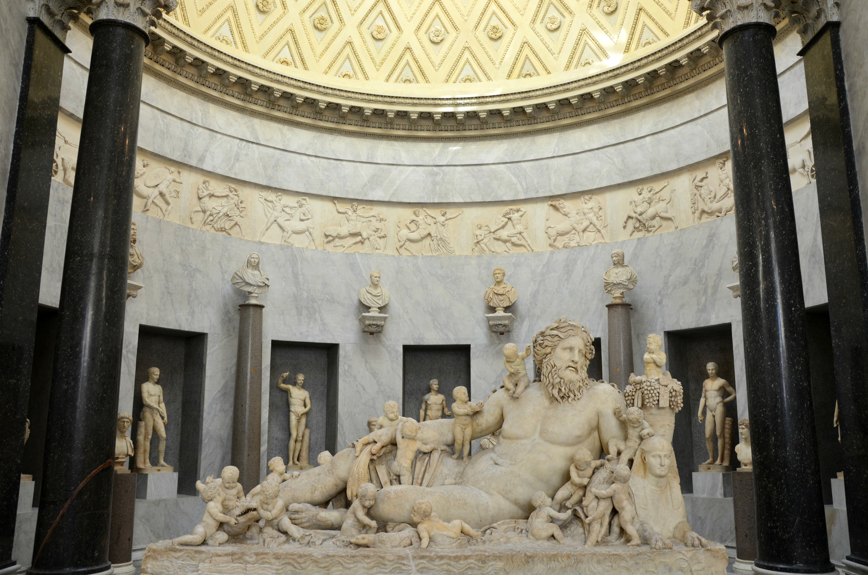 New Wing, Vatican Museums